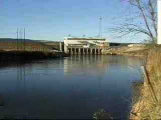 Photo By Mike Cline, December 3rd, 1996